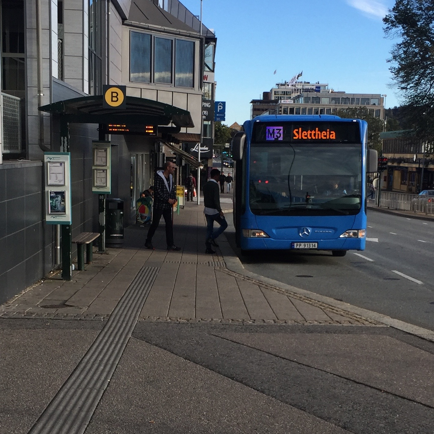 City bus in Kristiansand bound to Slettheia